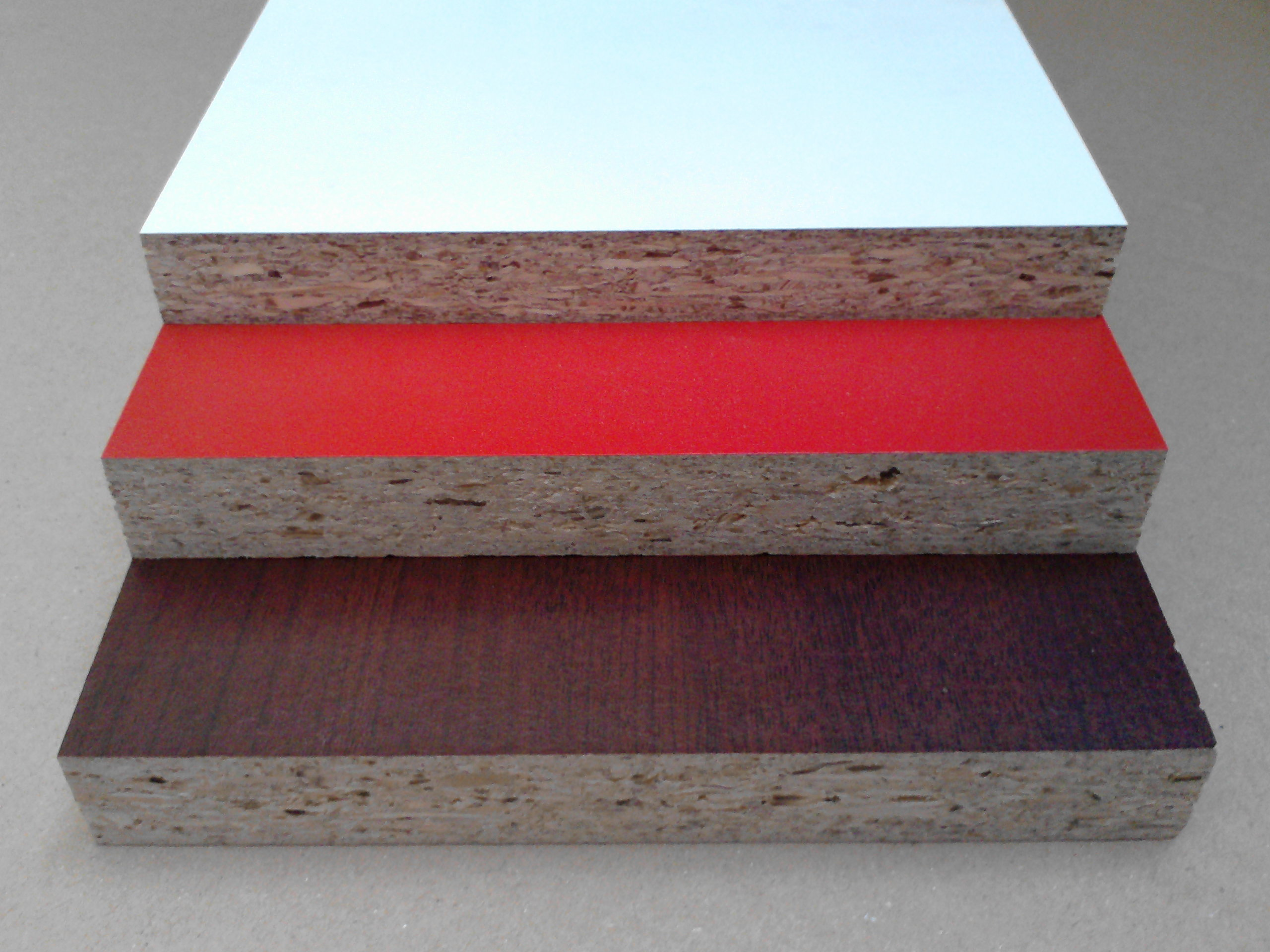 Laminated particle boards